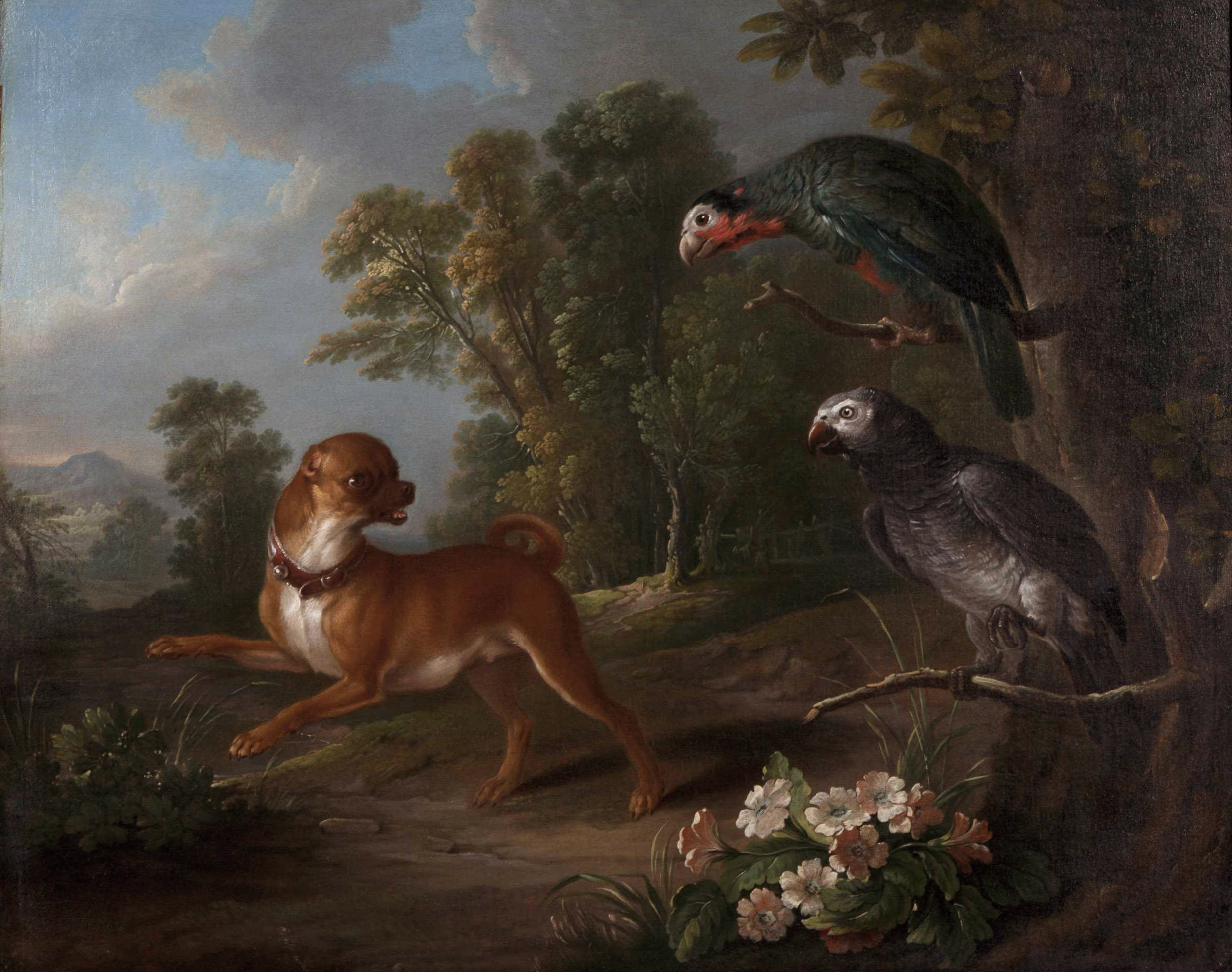 A miniature pug and two African grey parrots in a landscape oil on canvas 72 x 91.1 cm